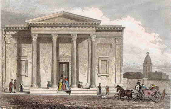 The 1829 home of the Royal Birmingham Society of Artists in New Street, illustrated by William Smith FRSA in 1830 for his New & Compendious History of the County of Warwick. Source